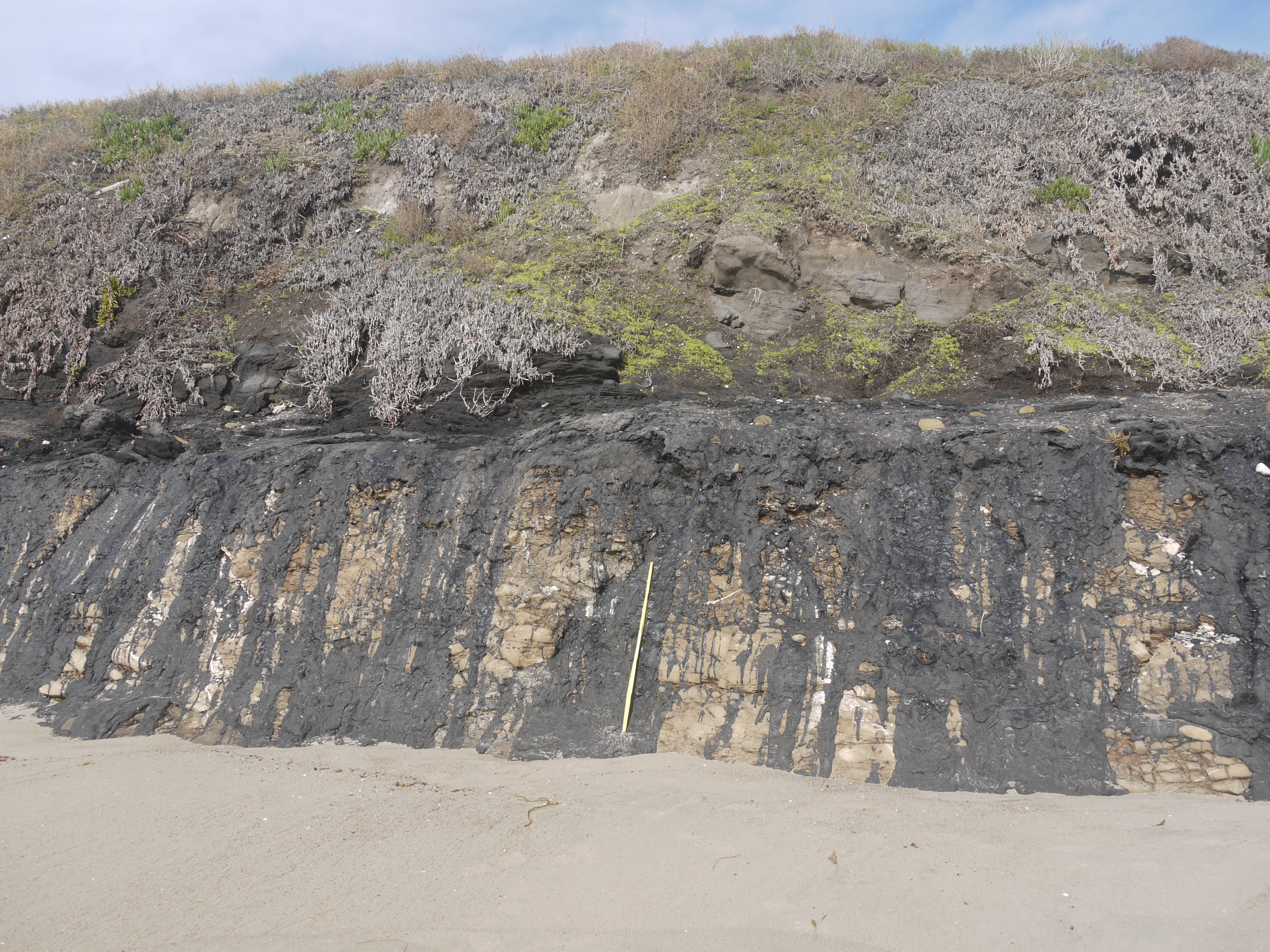 layers of stone (limestone?), tar , tar-sand mix and sand at Carpinteria, CA yellow vertical strip is 1m